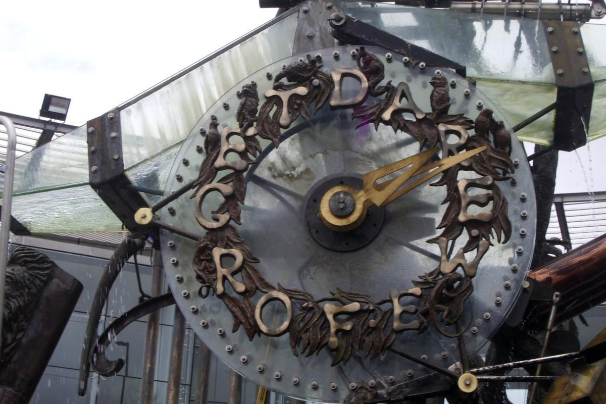 Hornsby Water Clock: detail of clockface on the Swiss pendulum clock.